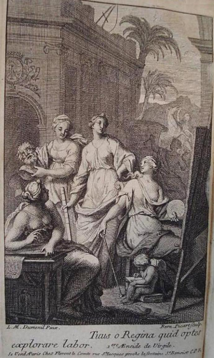 Title print of Florent le Comte's Cabinet of Curiosities of Architectue, Painting, Sculpture, and Engraving. Drawn by L.M. Dumenil and engraved by Bernard Picart, with caption "It is for you, o queen, to decide what our labours are to achieve" from Aeolus, god of the winds, in the first book of the Aeneid